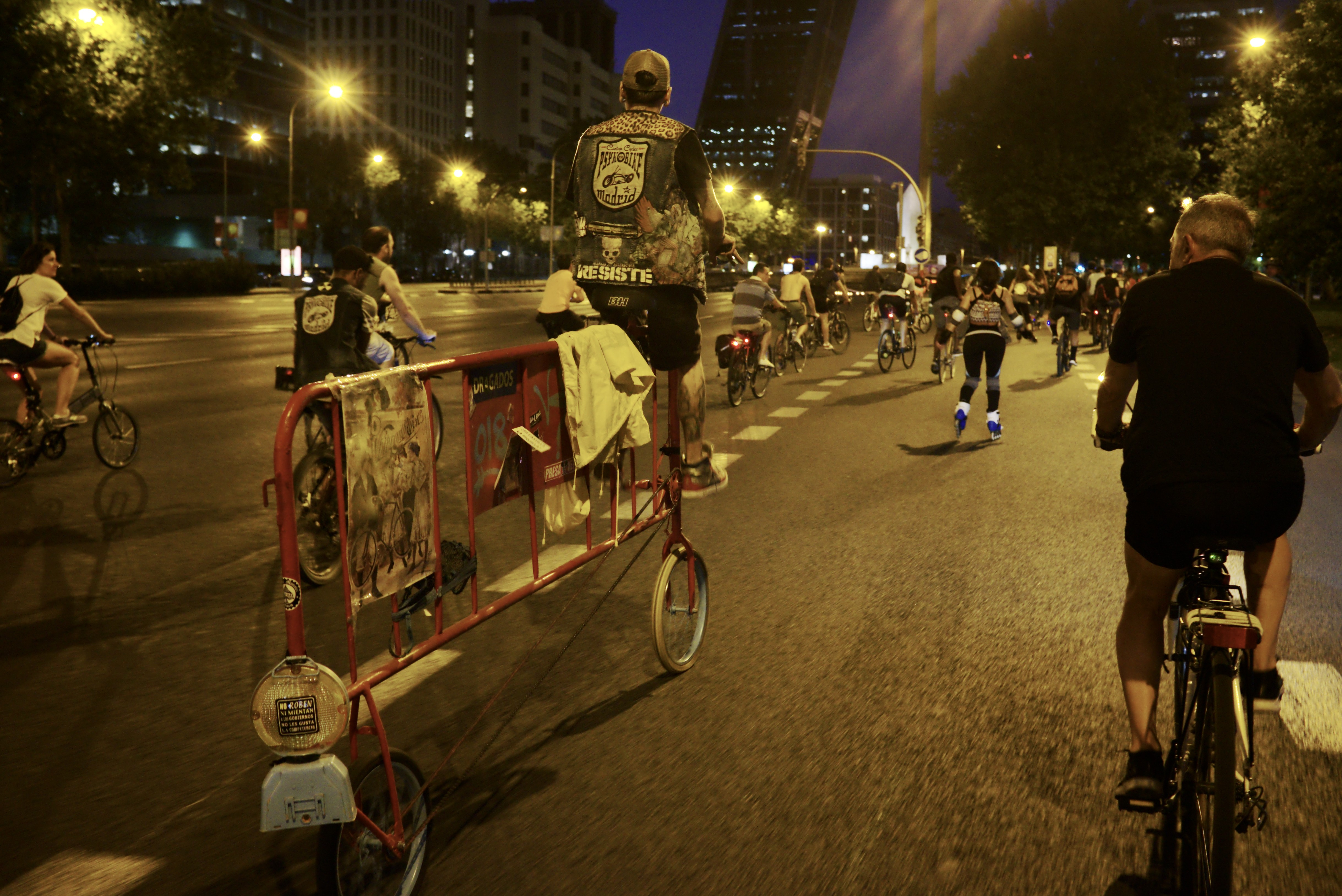 Bici Crítica (Critical Mass) in Madrid